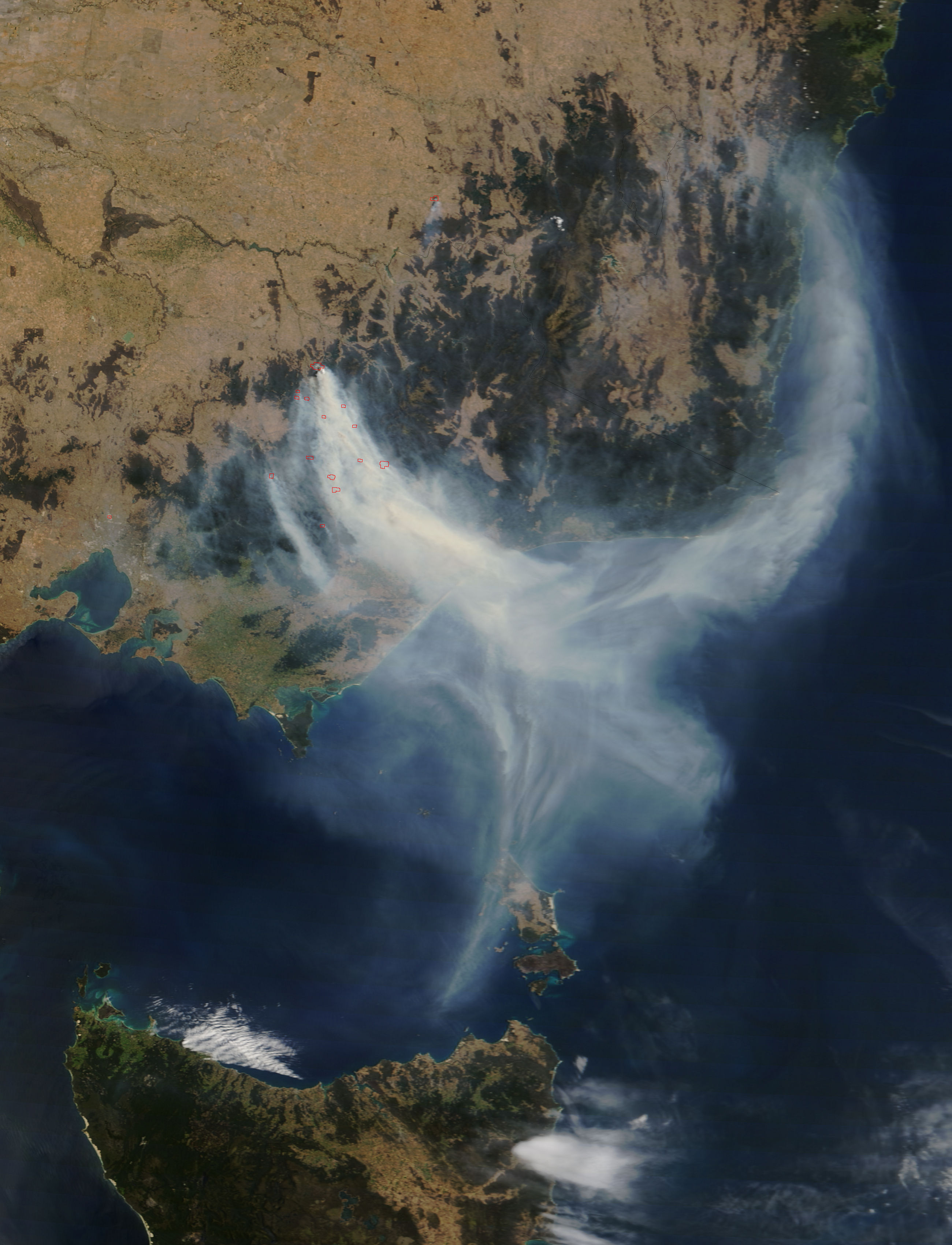 A river of smoke more than 25 kilometers wide flowed southeast toward the Tasman Sea from fires burning in the Great Dividing Range Mountains in Victoria, Australia, on December 5, 2006. This image from the Moderate Resolution Imaging Spectroradiometer (MODIS) on NASA’s Terra satellite shows the smoke crossing Ninety Mile Beach and spreading out over the sea. Fires (red outlines) were detected across a broad area of the mountains between Lake Eildon and the Dartmouth Reservoir. According to news reports, 50 fires—most of them in remote forests and parks—were burning out of control across Victoria in early December, and fire conditions were predicted to worsen in subsequent days.